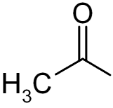 Chemical structure of an acetyl group